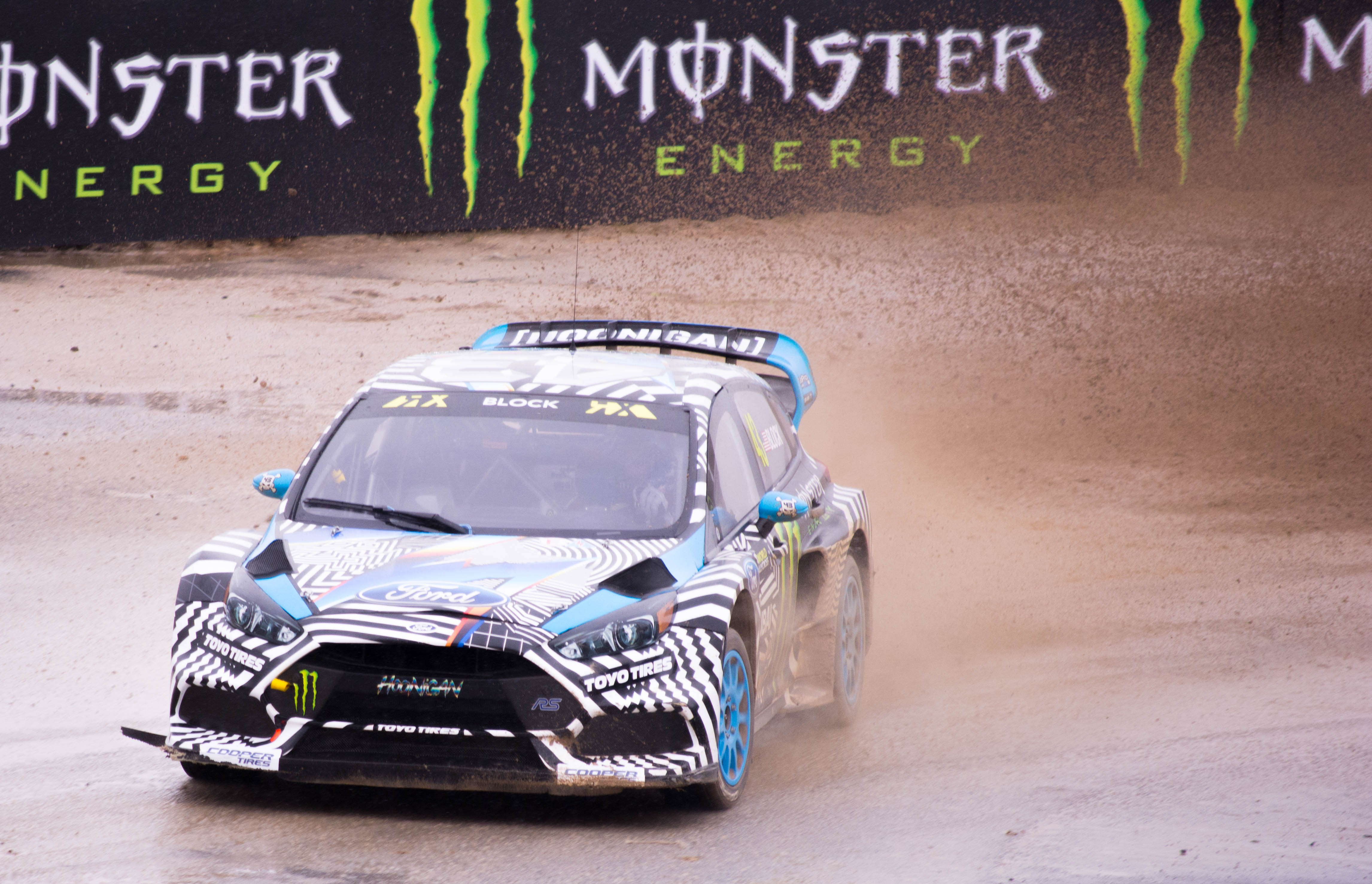 Portugal Montalegre 2016